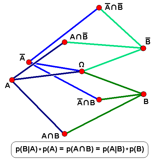 Illustration of Bayes' Theorem by two joined 3-dimensional tree diagrams